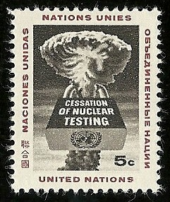 United Nations postage stamp